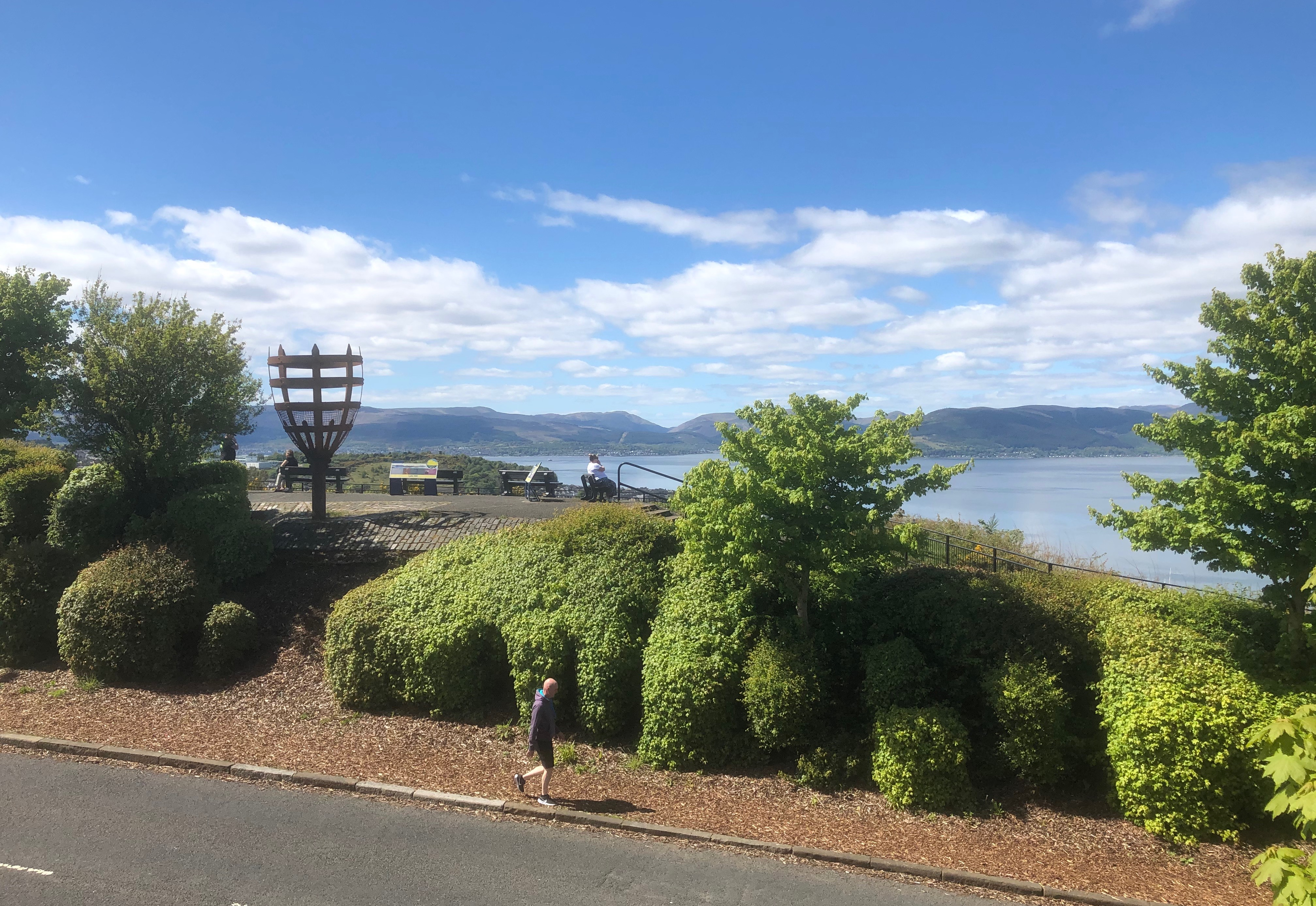 scenic viewpoint at the high point of Lyle Hill in Greenock. To the west over Gourock and the Firth of Clyde